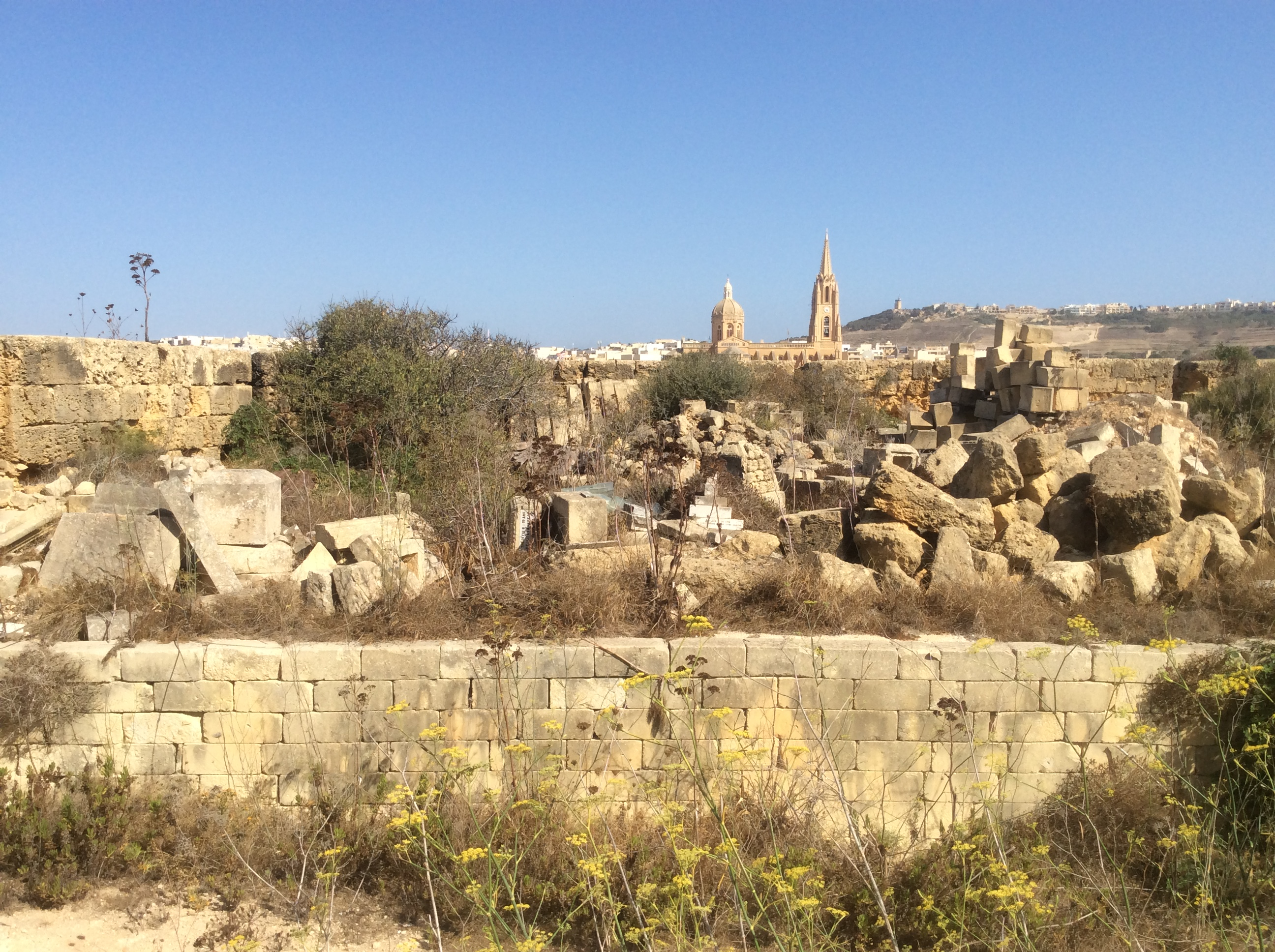 Forti Xambrè